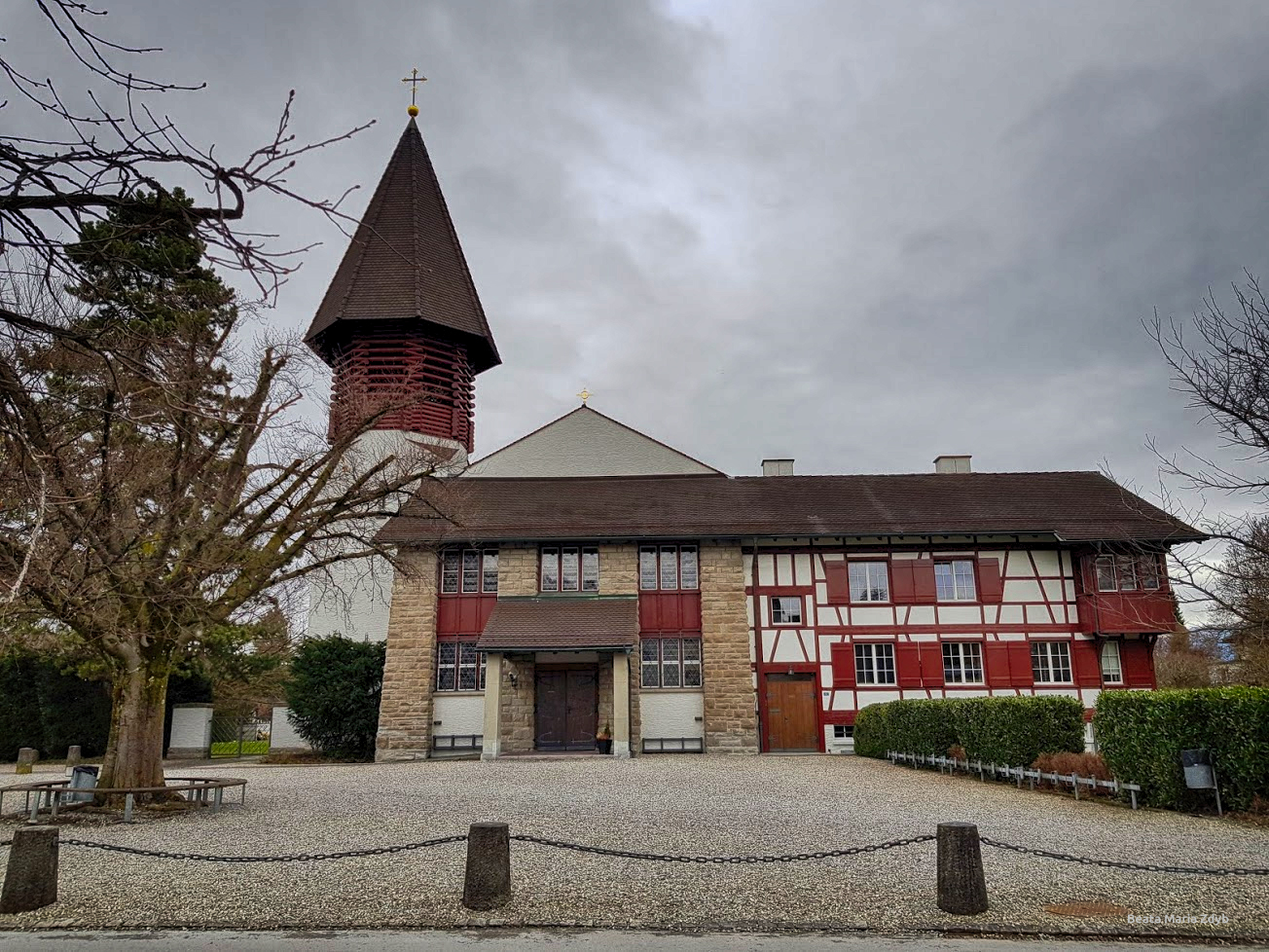 The Evangelical Reformed Church in Heerbrugg (CH)